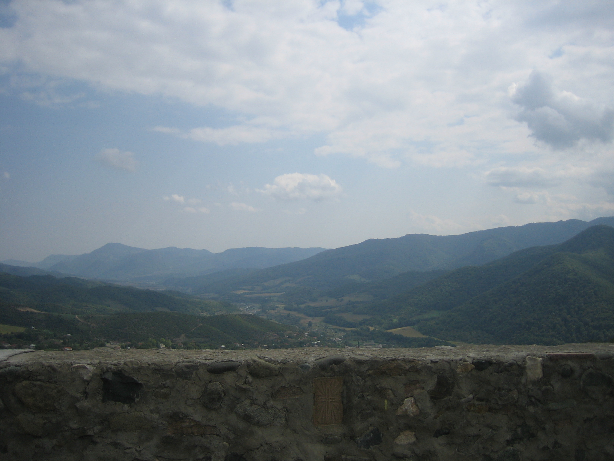 A picture of the village of Vank, Martakert, in Nagorno-Karabakh, that I took from Gandzasar monastery in September, 2005.